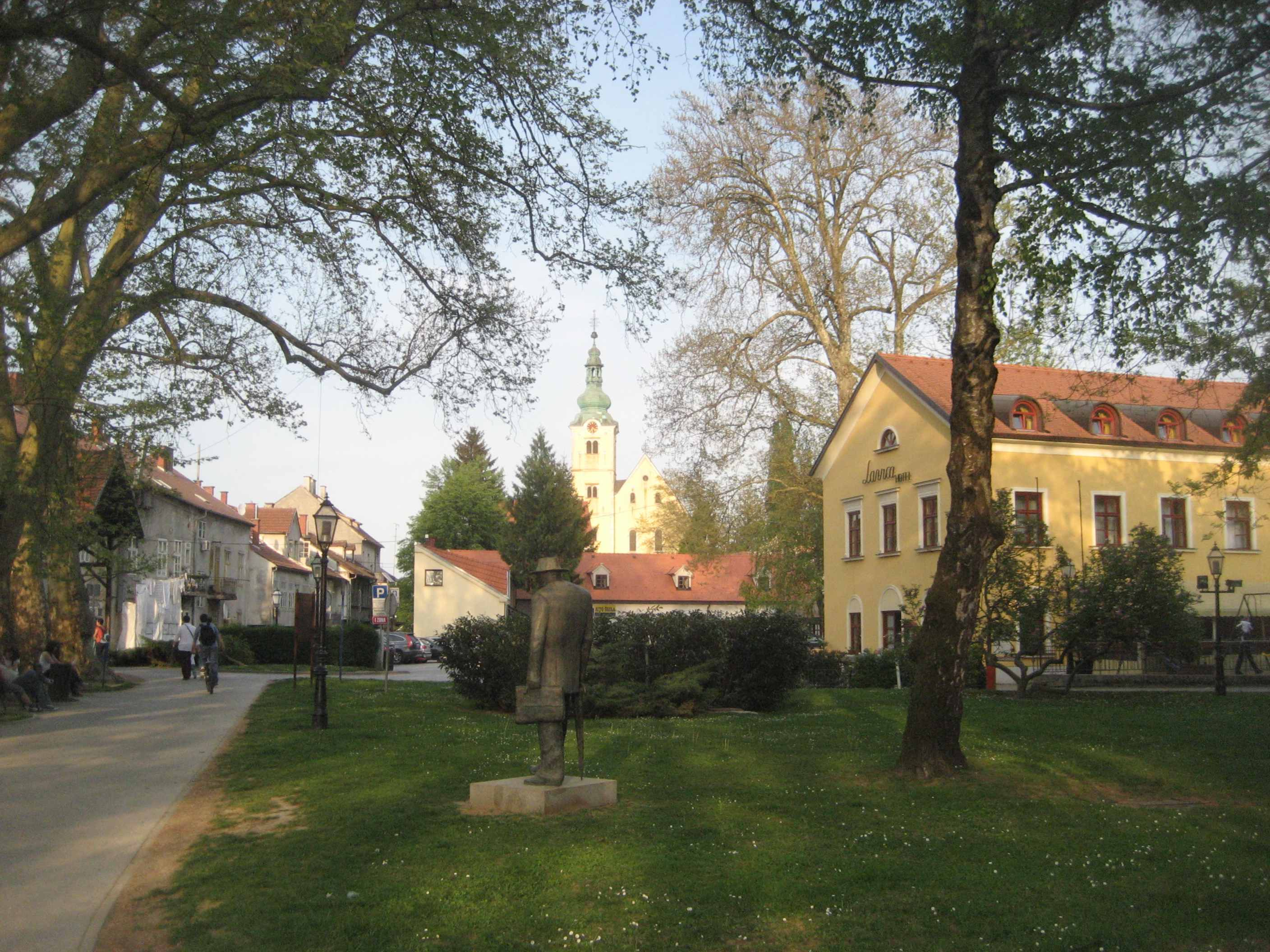 Samobor